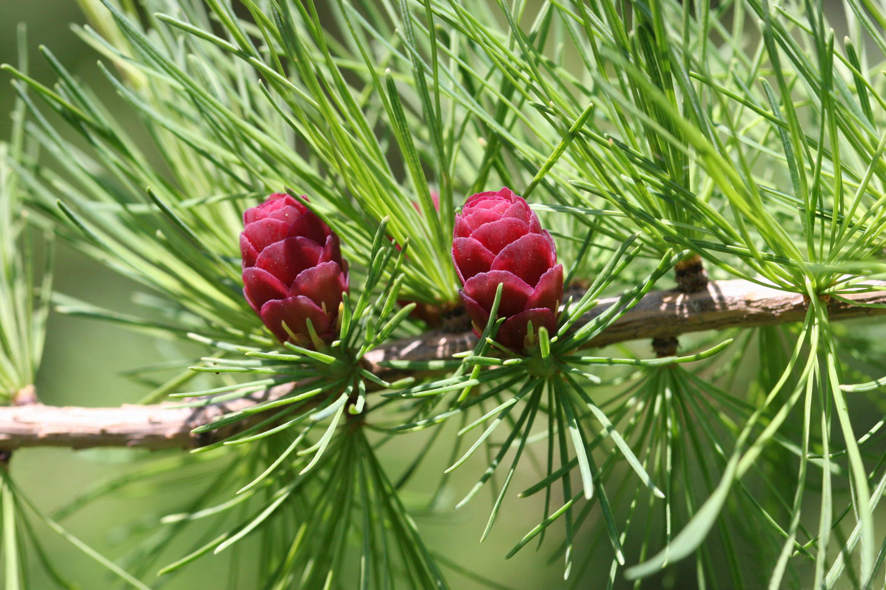 Larix laricina foliage and young cones USA